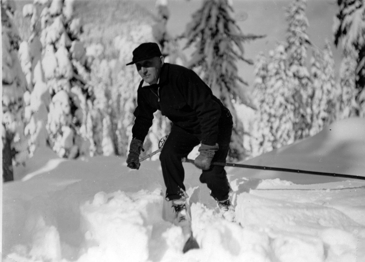 Ben Evans, Director of Playfields of the Seattle Parks Department, skiing at Snoqualmie Pass, 1935. For five years in the 1930s, the department operated a ski park at the Pass, about 54 miles (87 km) from the city. Item 31194, Ben Evans Recreation Program Collection (Record Series 5801-02), Seattle Municipal Archives.